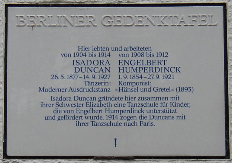 Berlin memorial plaque for Isadora Duncan and Engelbert Humperdinck in Berlin-Grunewald, Germany